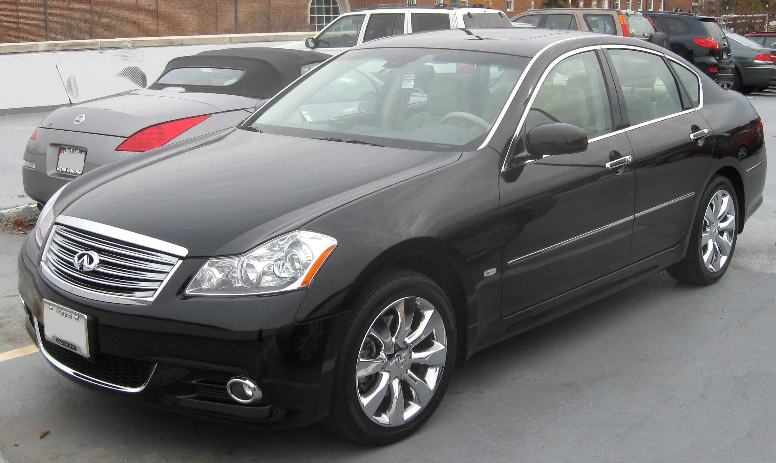 2008 Infiniti M35X photographed in College Park, Maryland, USA.